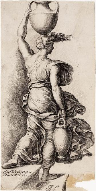 Woman with a water jug, seen from the back.